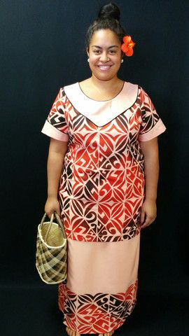 Tradition Samoan Dress